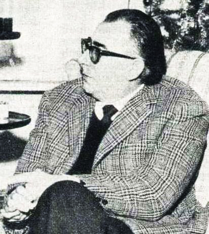 Italian writer Diego Fabbri in 1964